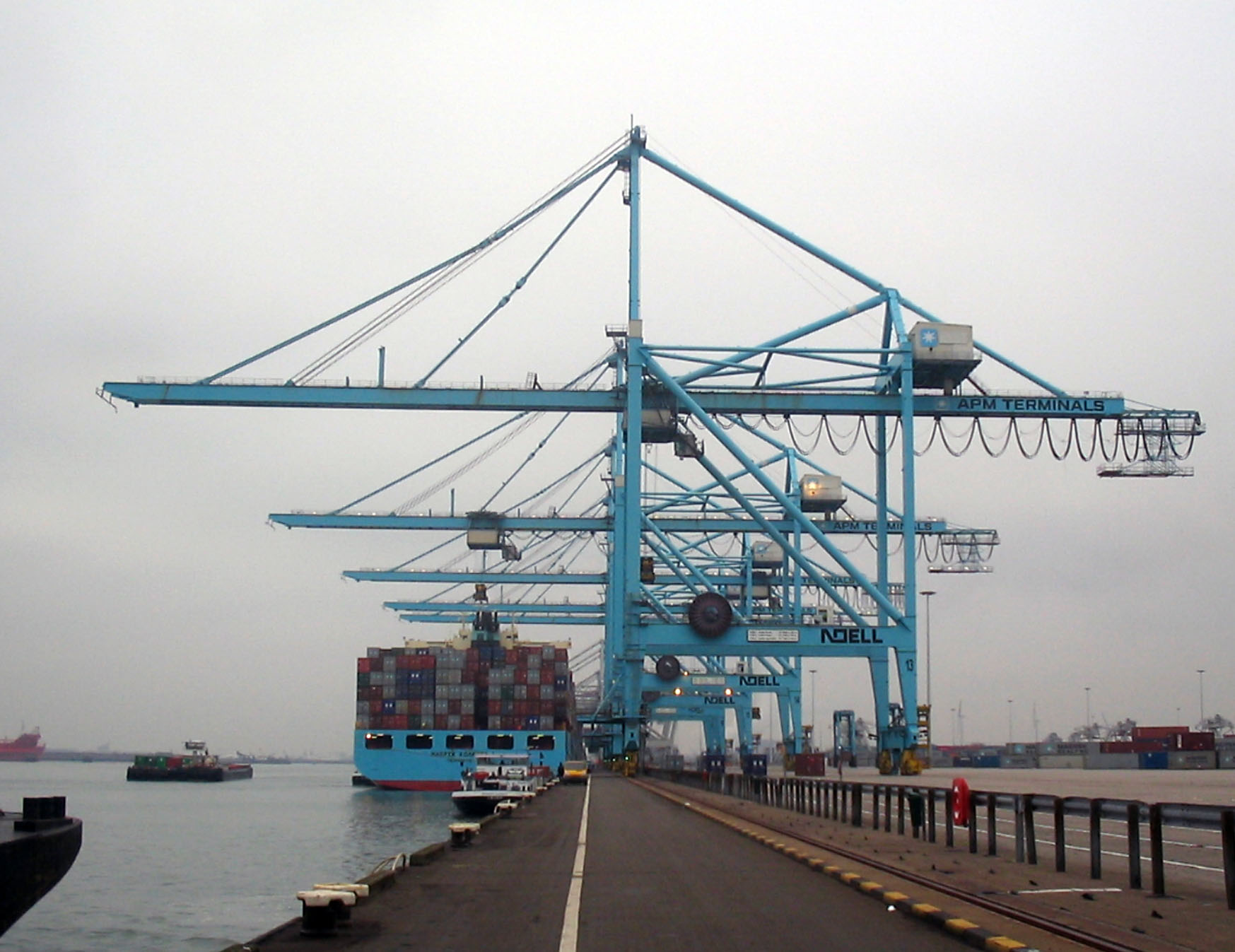 Portainer (gantry crane) (Rotterdam harbour)